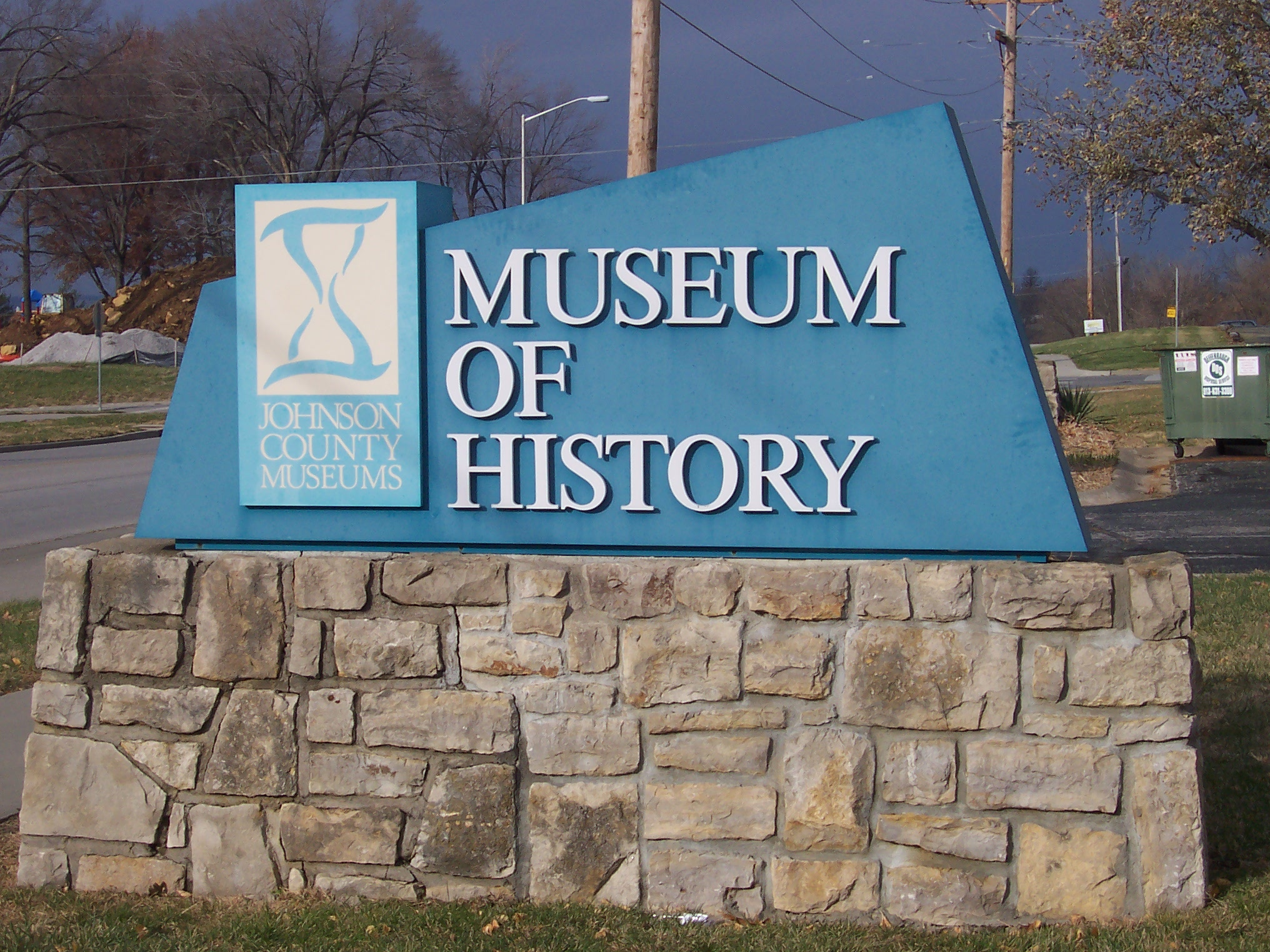 Kansas, Shawnee. Johnson County Museums: Museum of History. Entry sign.